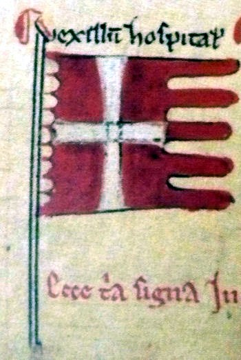 Banner of the Hospitallers (vexillum hospitalorum), from Matthew Paris' Chronica Maiora, Parker MS 16 fol. 138r, c. 1250 (reproduced from, Nicholson 2001, p. 166)